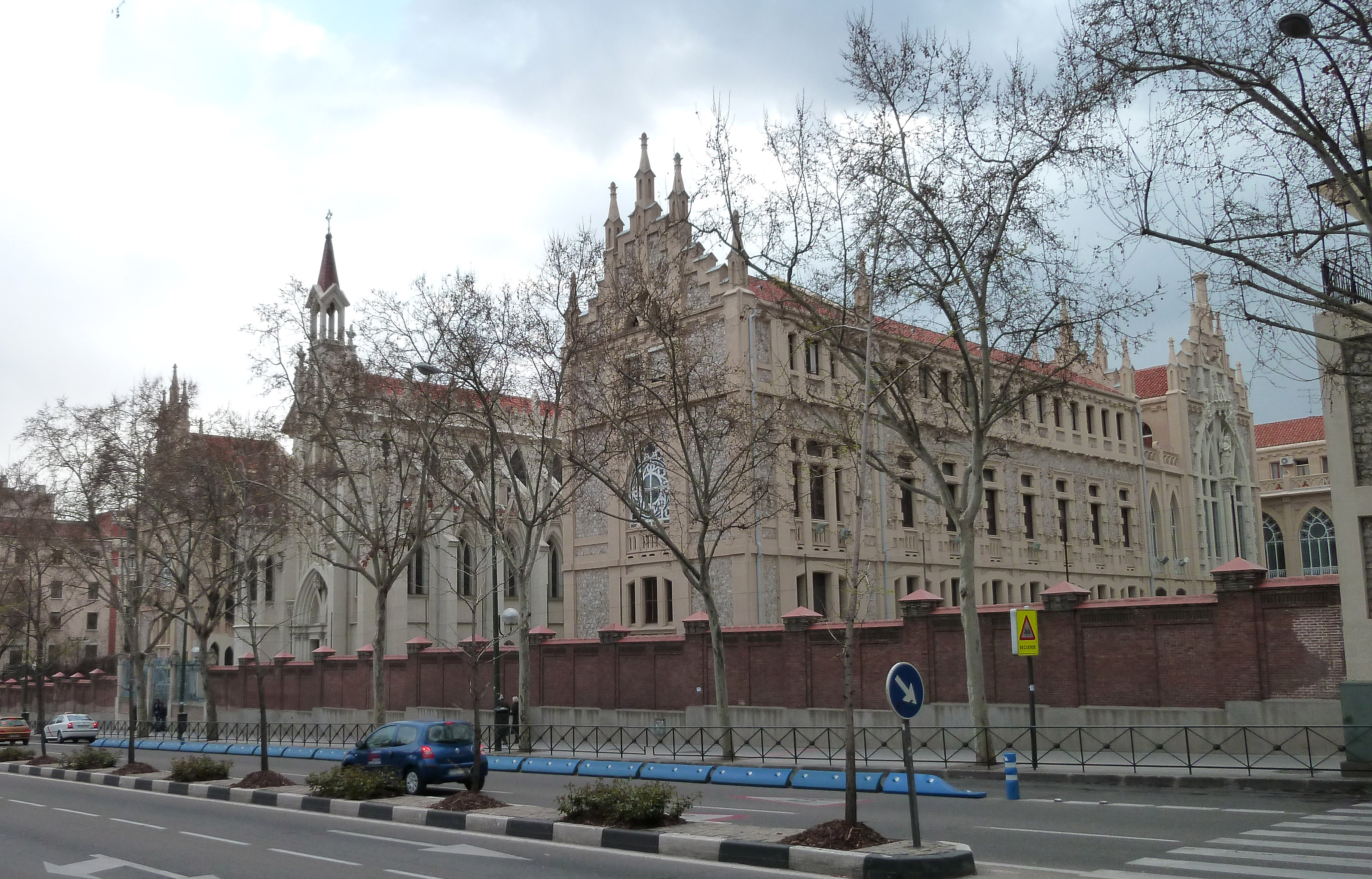 East façade of Colegio Nuestra Señora del Pilar (a school) in Madrid (Spain). Building was projected in 1908 by Manuel Aníbal Álvarez-Amorós and built between 1910 and 1916.